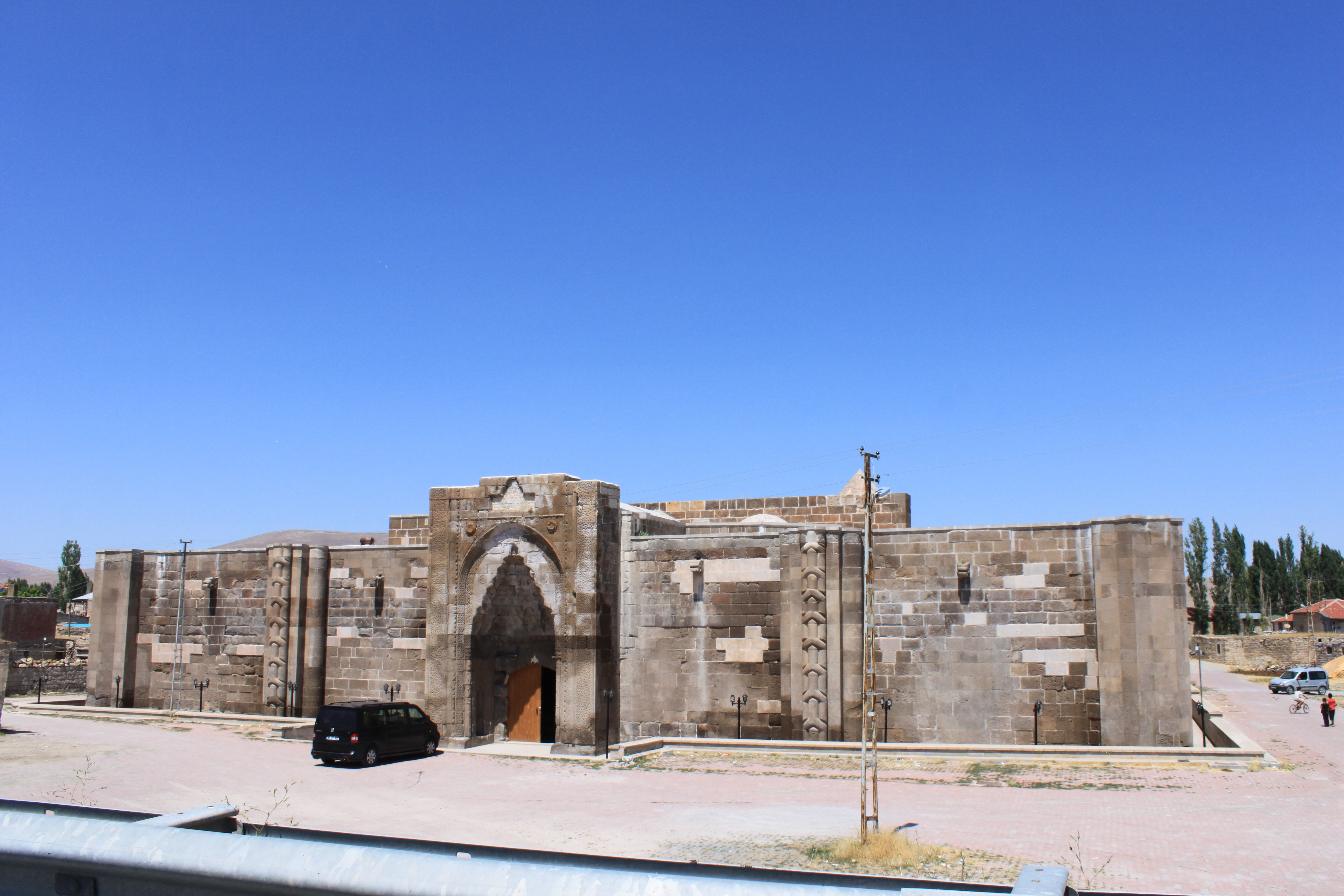 Karatay Han , view from the south.